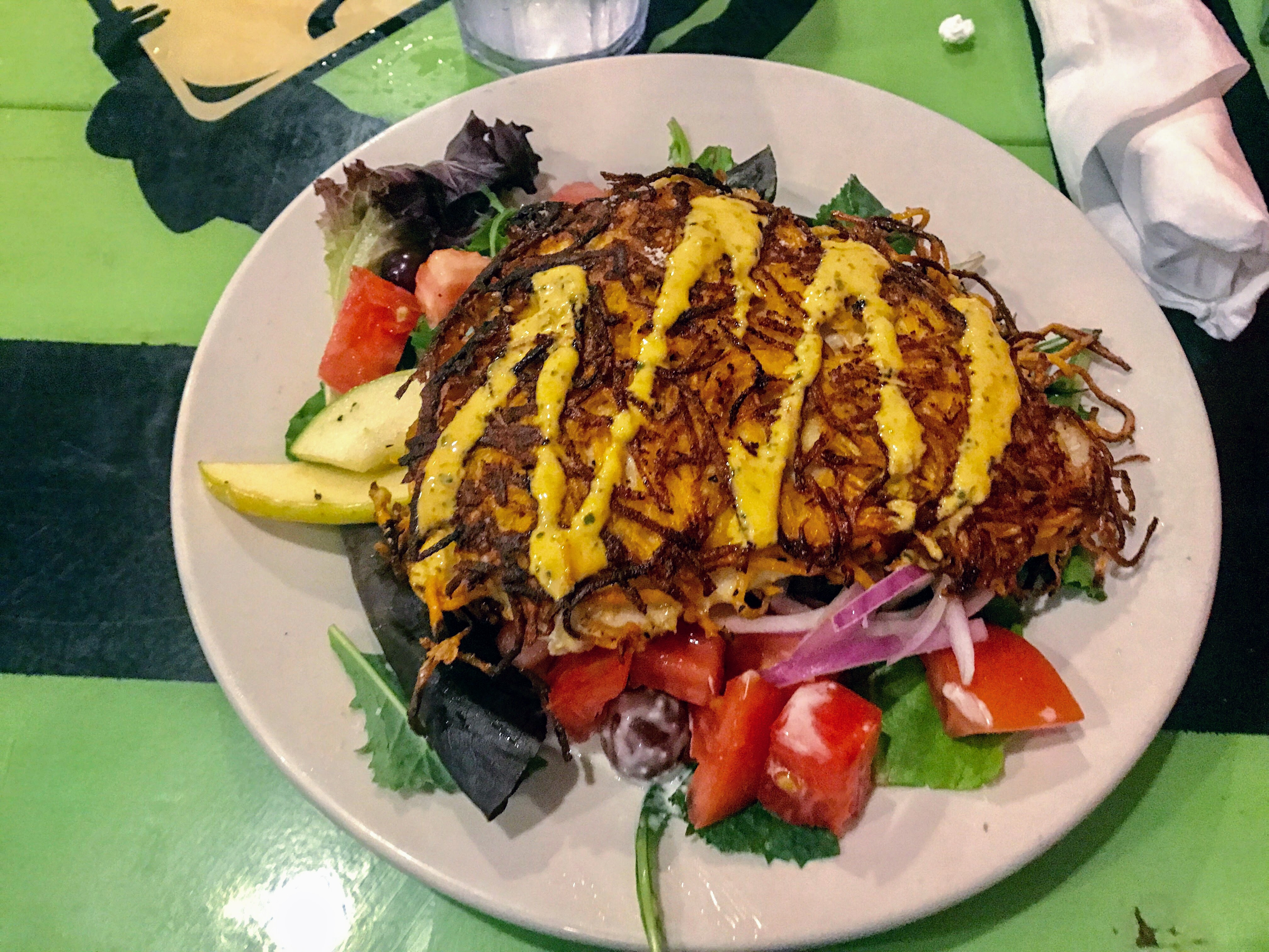 Sweet Potato Crusted Salmon on Salad with Ranch Style Dressing. South Florida restaurant. Floribbean food.